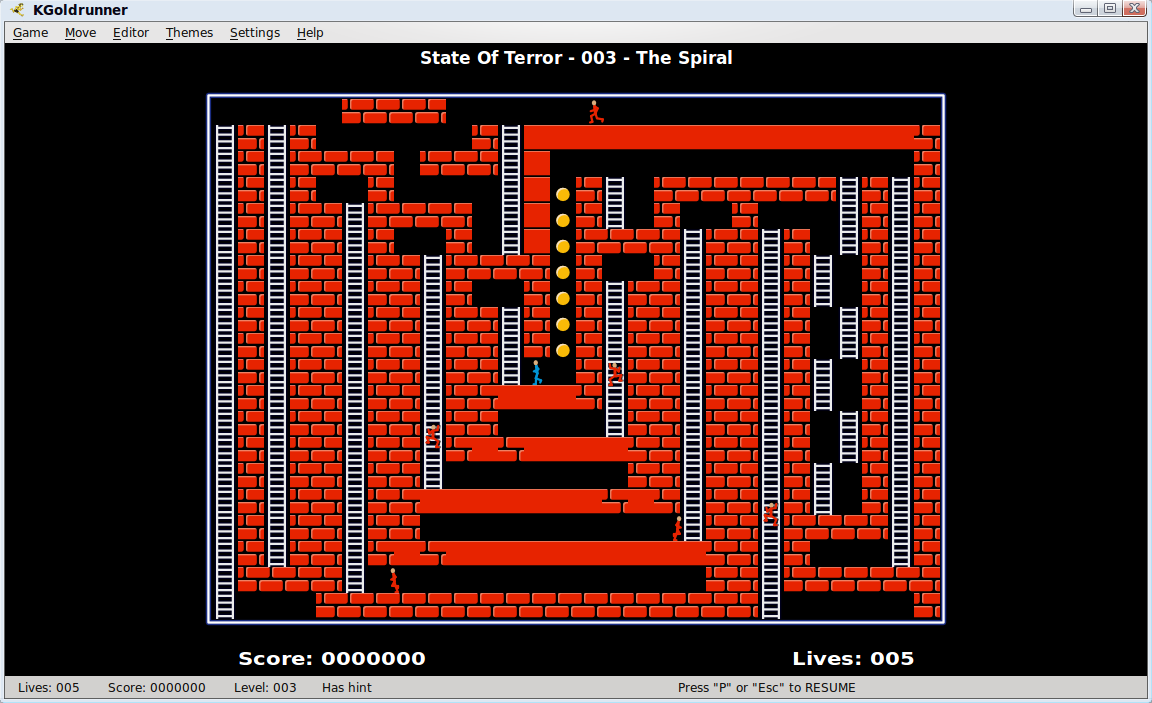 KGoldrunner showing game in progress.